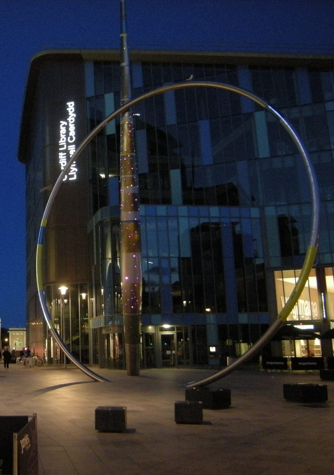 "Alliance" sculpture by night, in front of Cardiff Central Library. Reduced from a larger image to emphasise the sculpture.